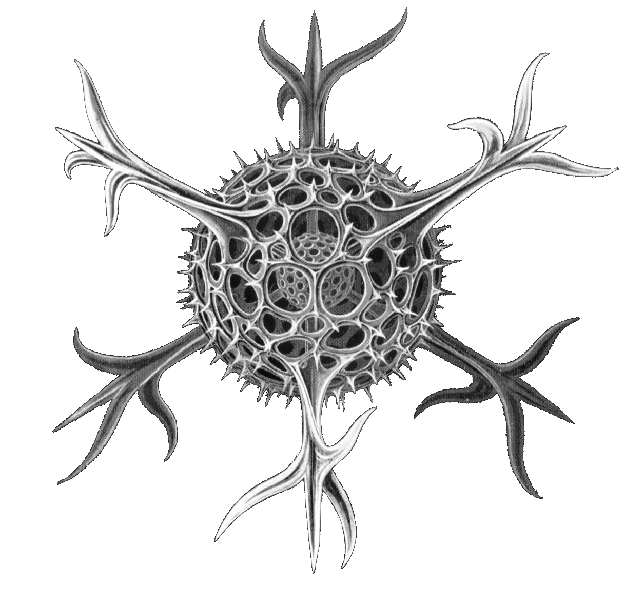 A detail from plate 91 of Ernst Haeckel's 1904 Kunstformen der Natur.